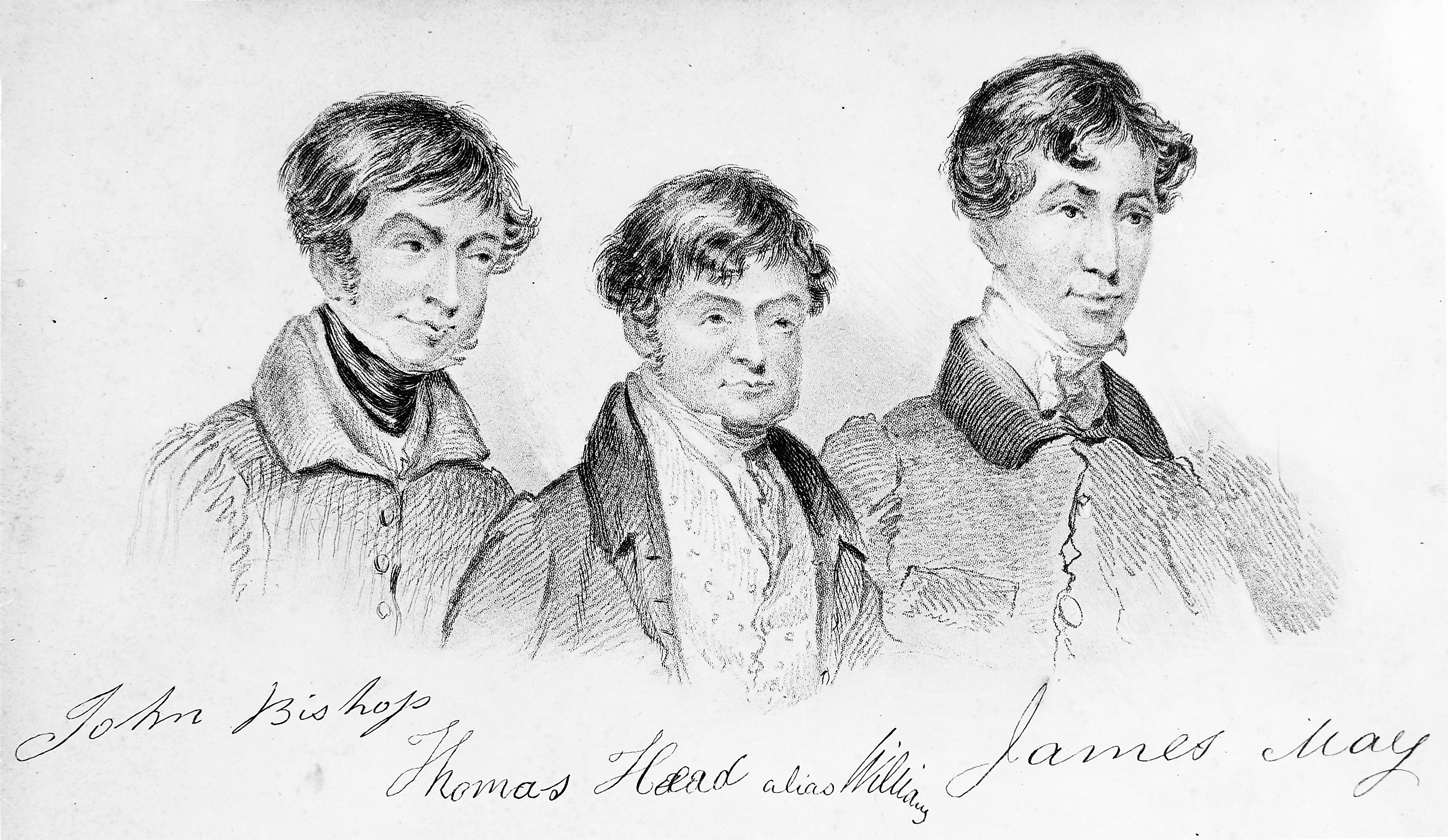 The 'London Burkers': John Bishop (left), Thomas Williams (centre) and James May (right). The subjects known as the 'London Burkers' were convicted in 1831 of the murder of a victim for the purposes of dissection Rare Books Keywords: anatomy, history; James May; John Bishop; body snatchers; burkers; "italian boy"; Resurrectionists; Thomas Williams